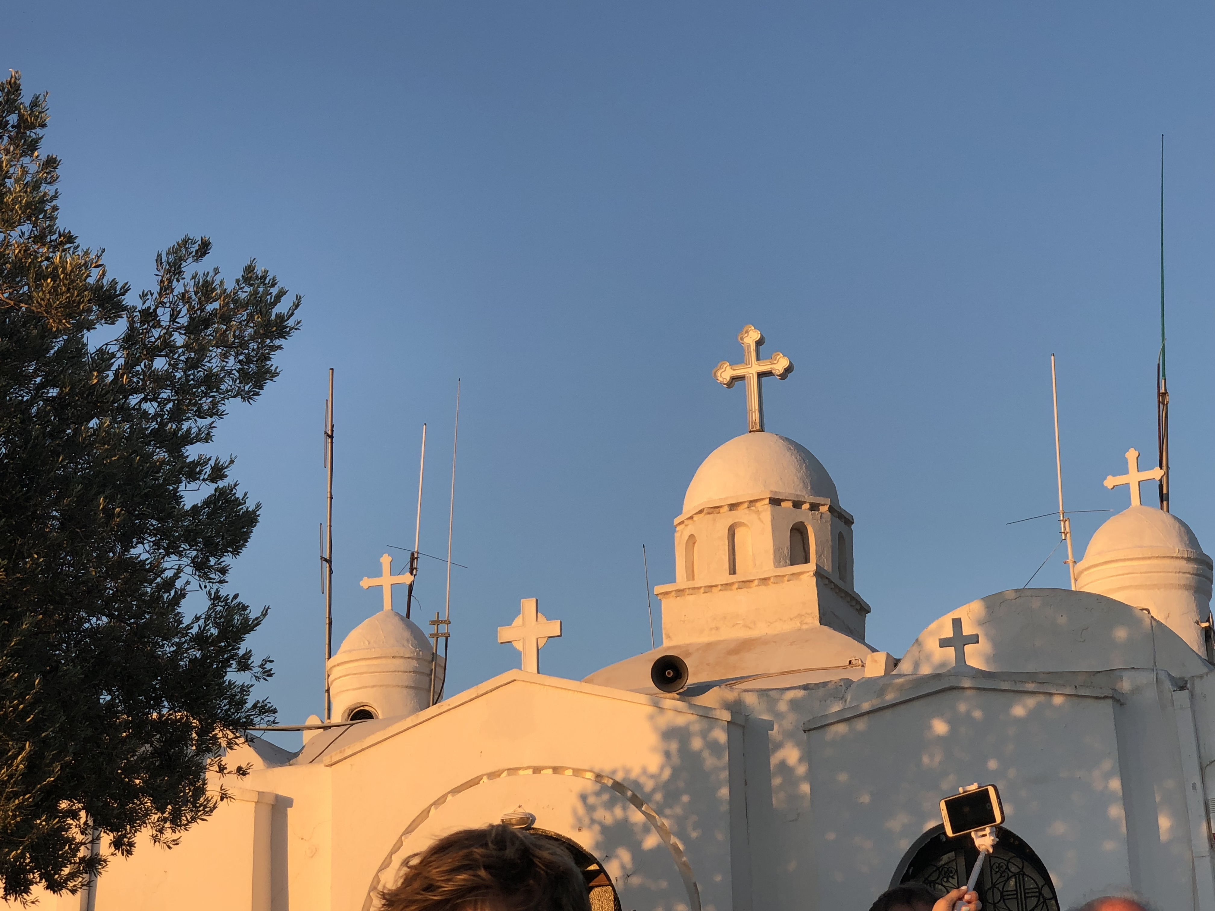 saint george temple in athens, greece, mount Lycabettus. taken in 2018